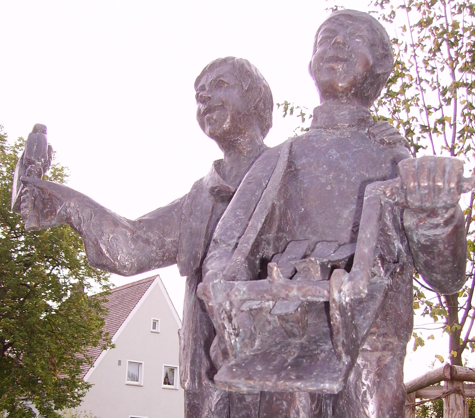 Münsterschwarzach, Germany